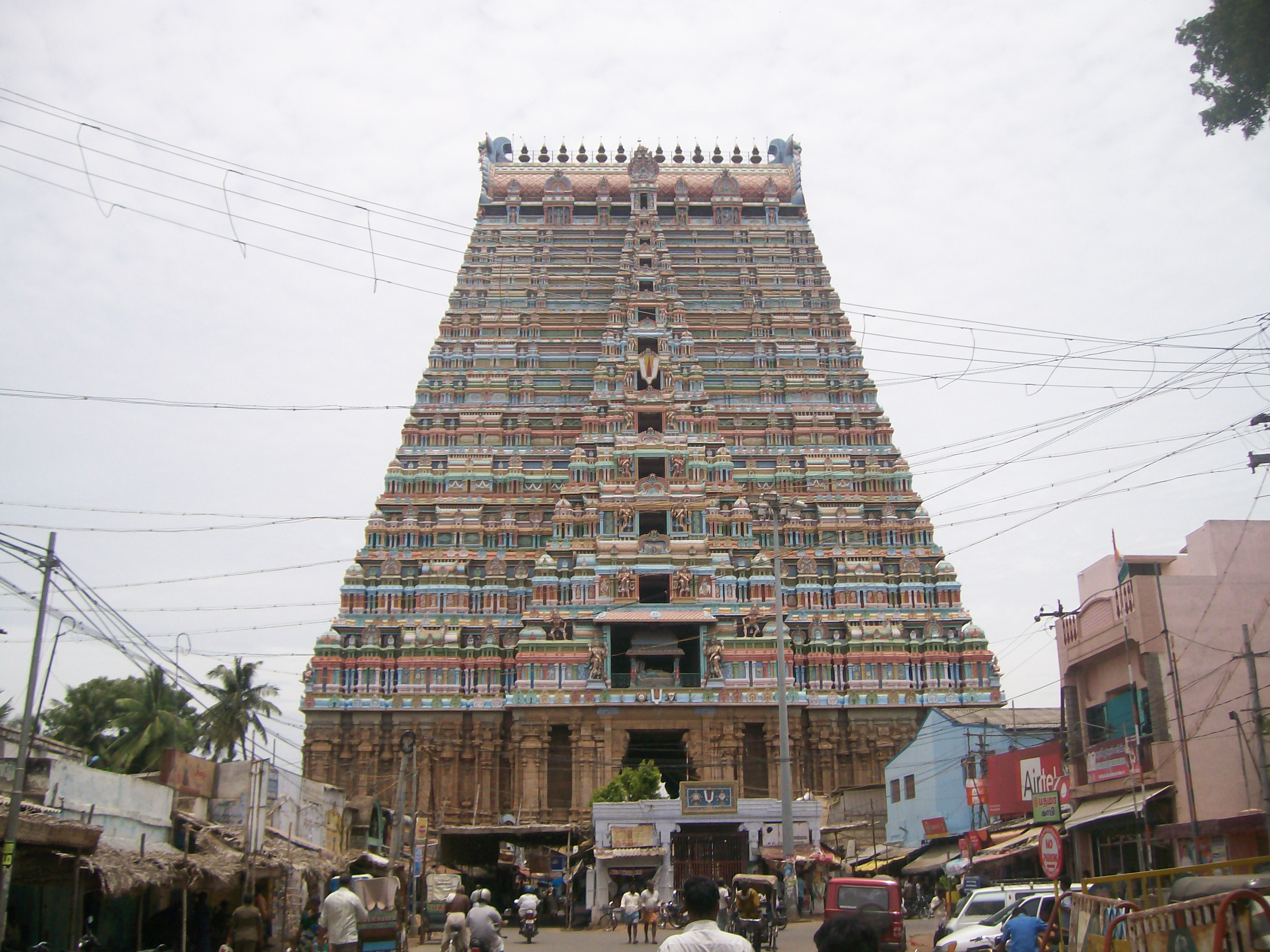 srirangam